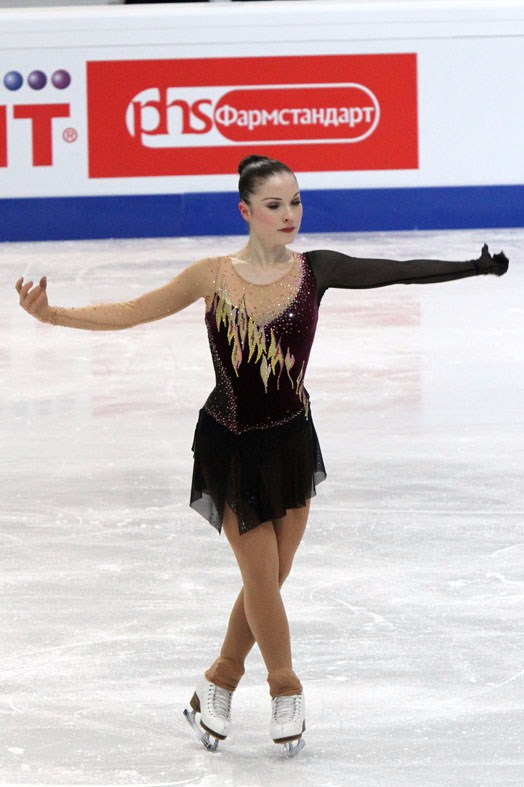 Fleur Maxwell at the 2011 European Figure Skating Championships